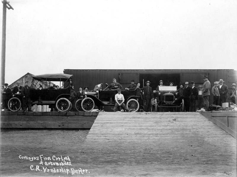 Model T's arriving in Coalinga, ca.1914 Coalinga's first carload of automobiles. C. R. Vanderlip was the dealer.